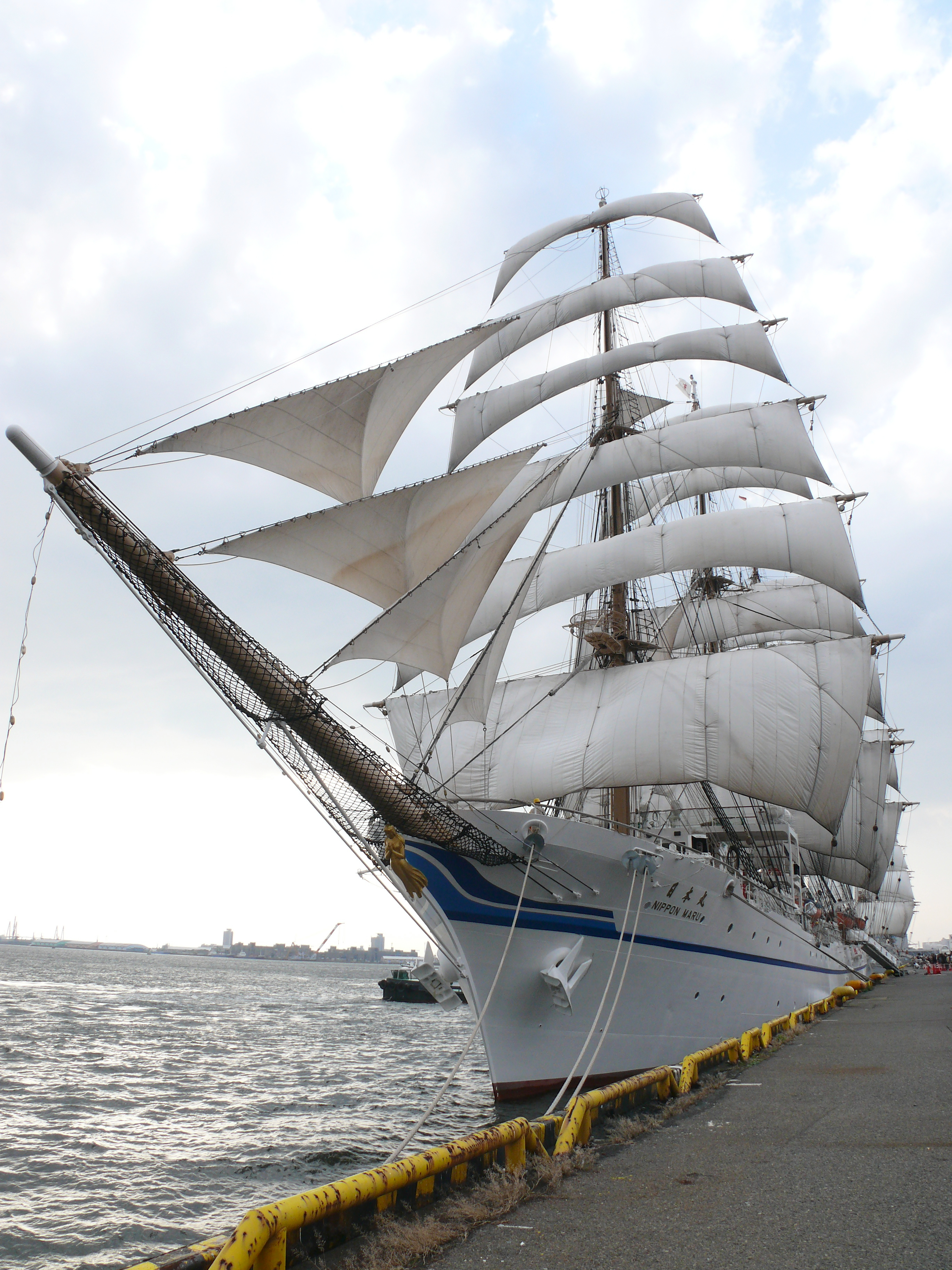 Nihonmaru II.